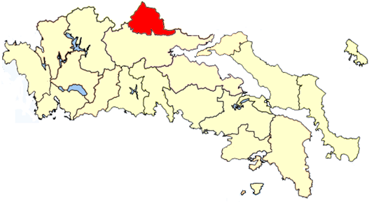 Domokos province